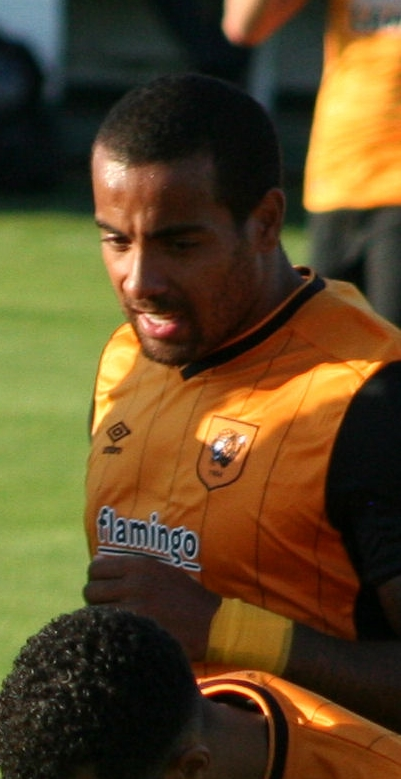 Tom Huddlestone playing for Hull City against North Ferriby United at Grange Lane, North Ferriby on 17 July 2015